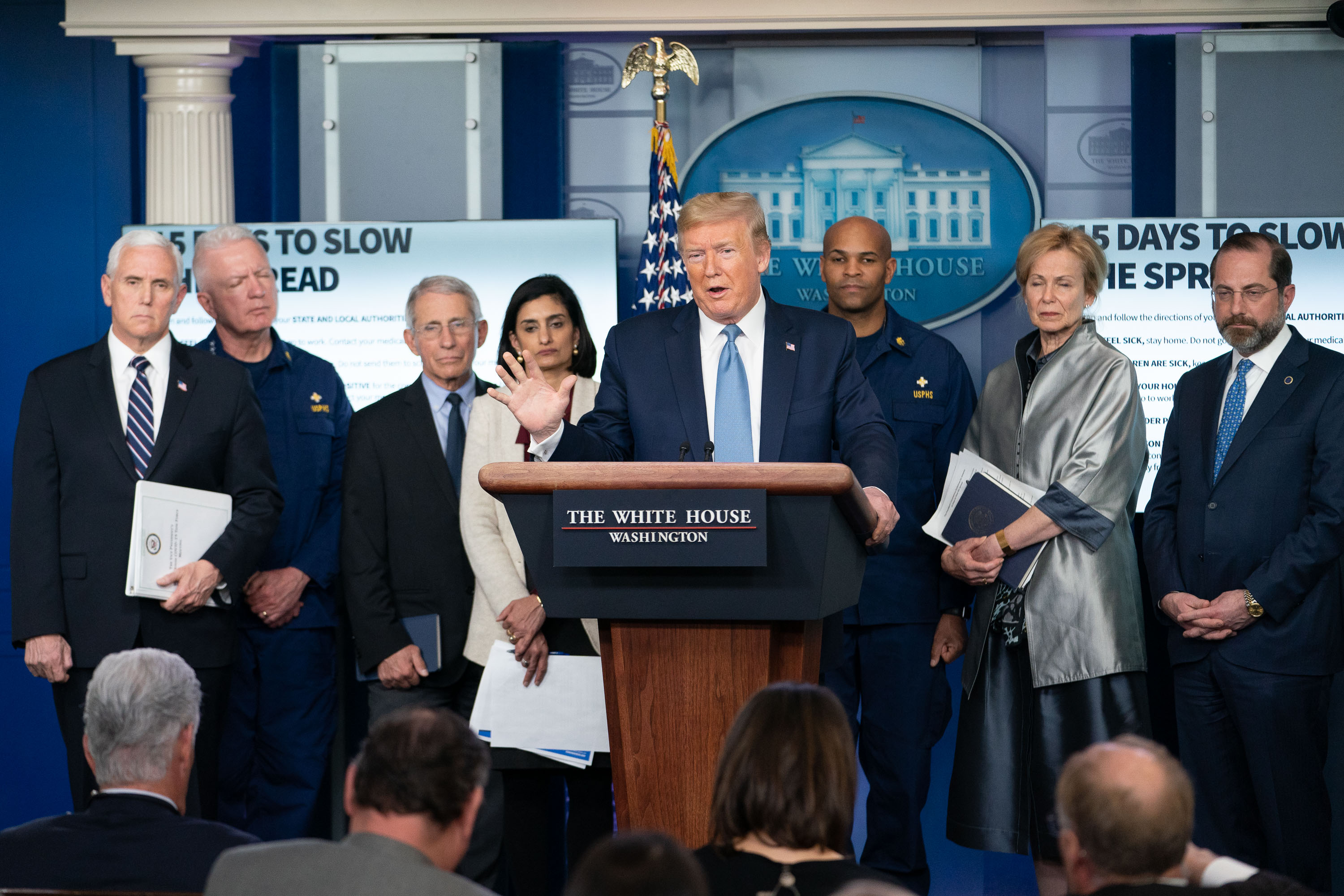 President Donald J. Trump, joined by Vice President Mike Pence and members of the White House Coronavirus Task Force, delivers remarks at a coronavirus update briefing Monday, March 16, 2020, in the James S. Brady Press Briefing Room of the White House. (Official White House Photo by D. Myles Cullen)